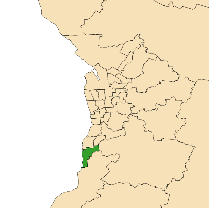 Electoral district 2018 boundaries shown in green